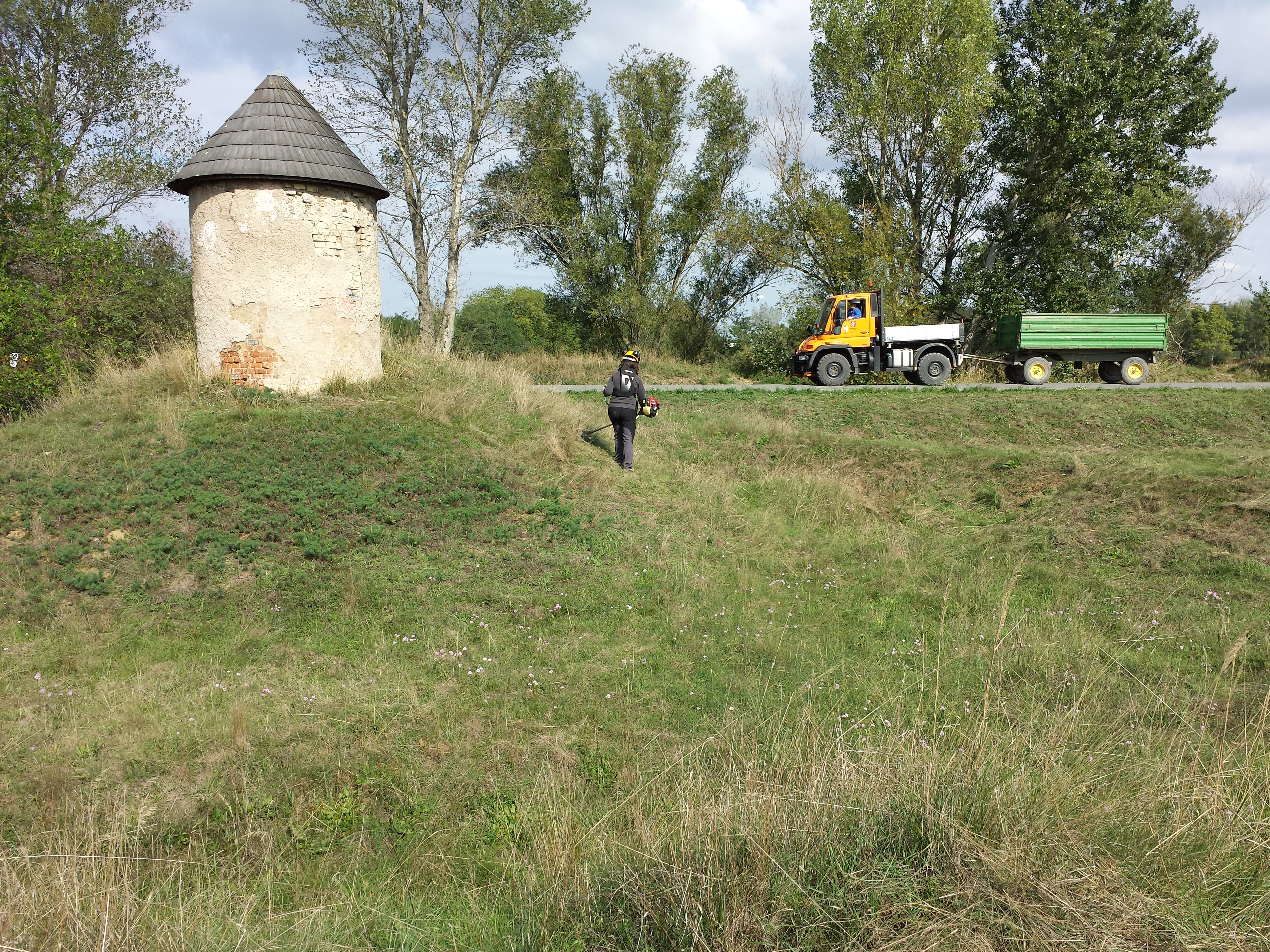 Pulverturm near Marchegg, district Gänserndorf, Lower Austria - ca. 140 m a.s.l. Preservation effort by Naturschutzbund NÖ This media shows the natural monument in Lower Austria with the ID GF-058.